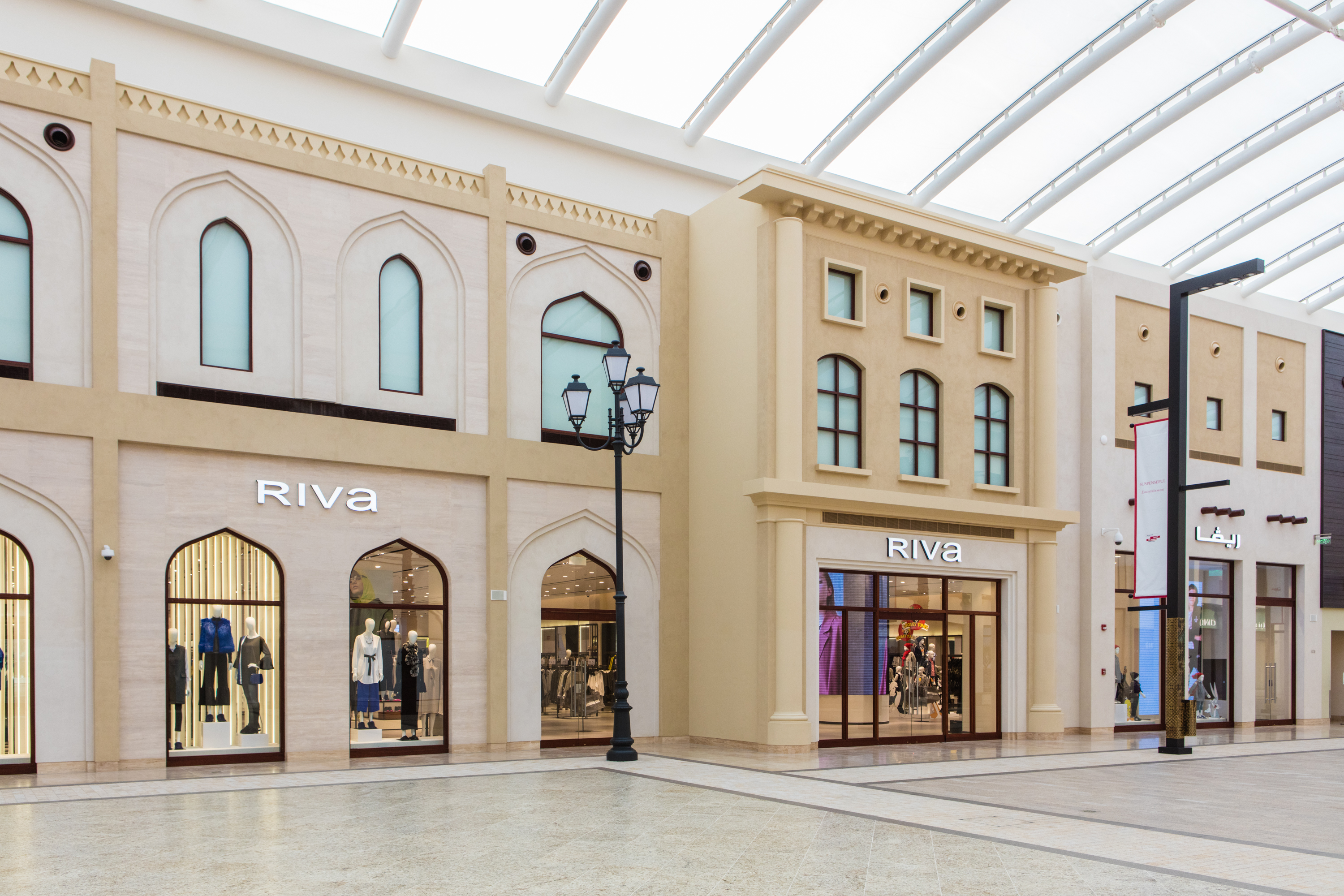 Riva Fashion Store Front